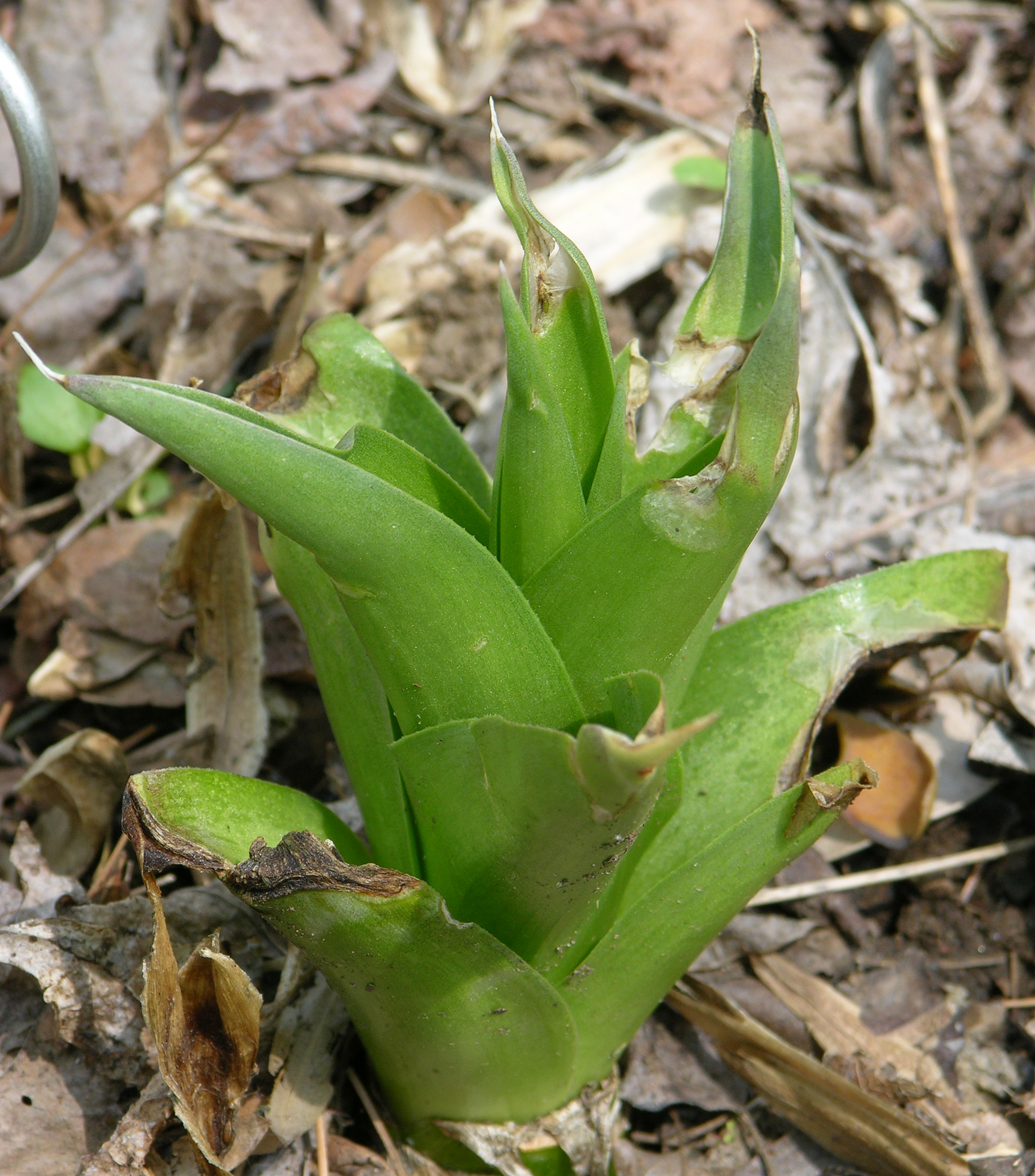 Photograph of the False Aloeen (Manfreda virginica en ). Photo taken at the Mt. Cuba Center where it was identified.